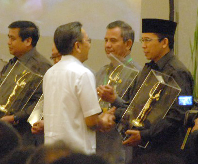 Gubernur NTB Dr TGH M Zainul Majdi sebagai pembina Program Nasional Pemberdayaan Masyarakat-Mandiri Pedesaan (PNPM-Mpd) Terbaik dari Kementerian Dalam Negeri (Kemendagri)